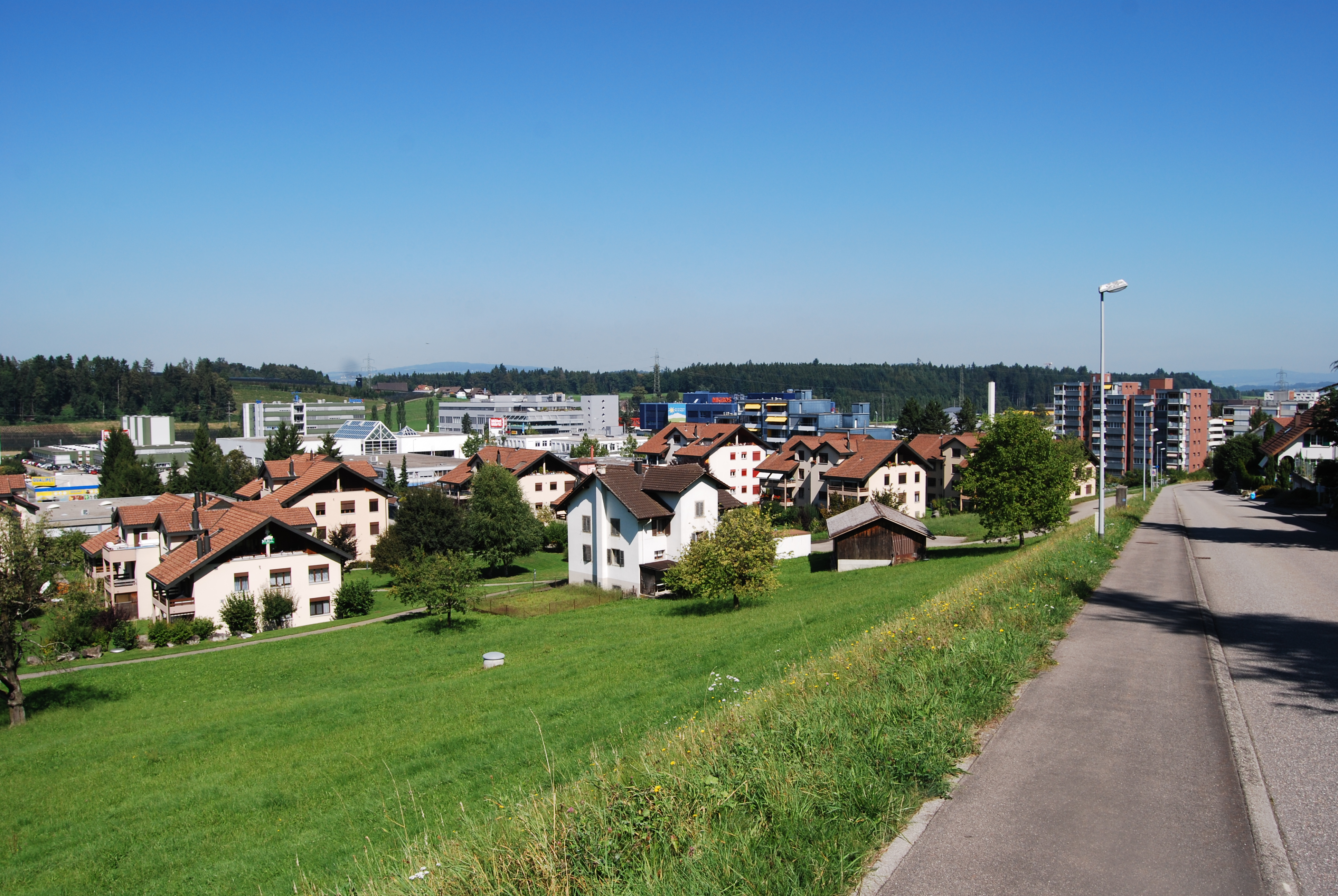 Dierikon, canton of Lucerne, SwitzerlandEsperanto: Dierikon, Kantono Lucerno, Svislando